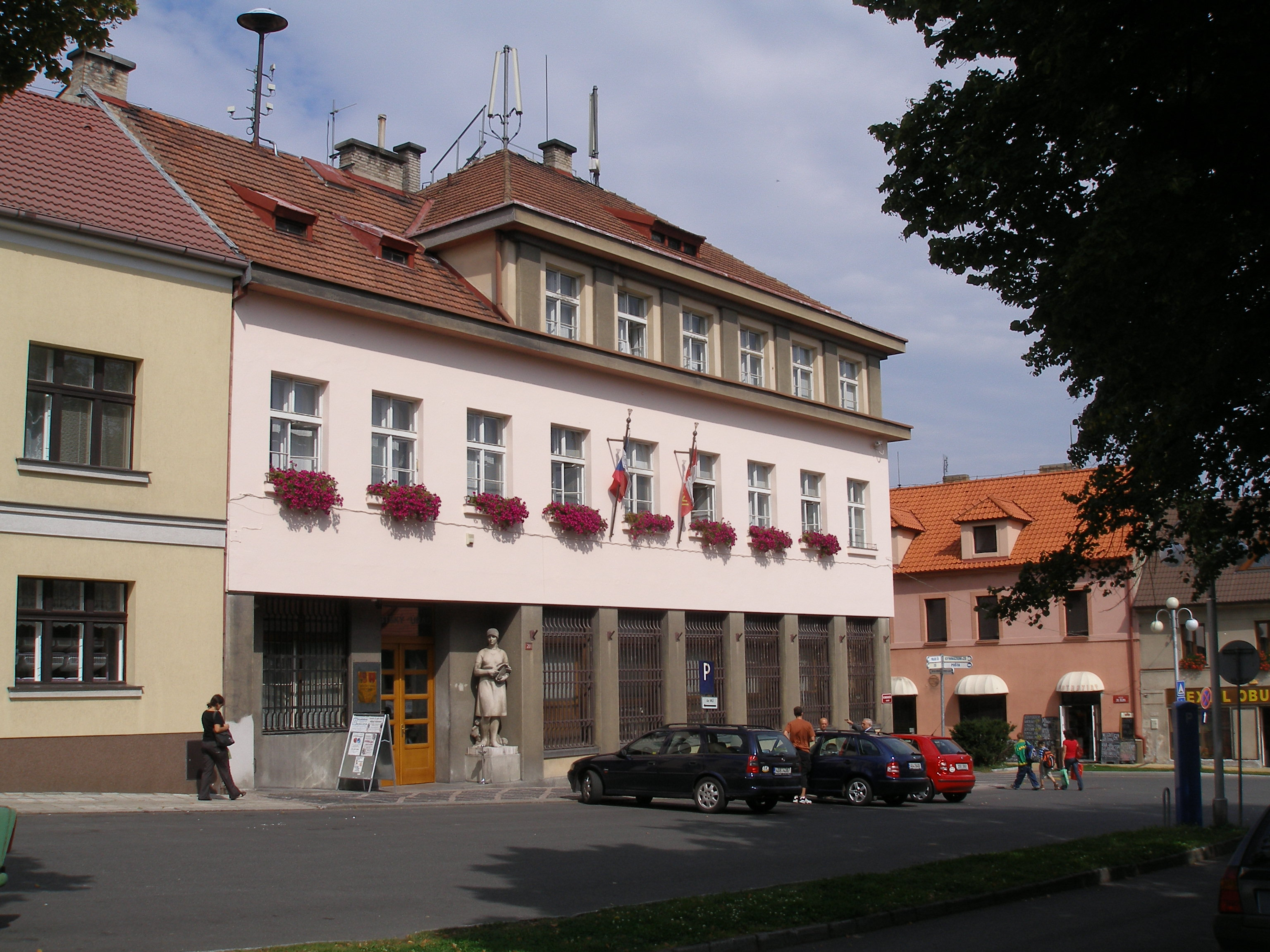 town of Nové Strašecí, Municipal Hall